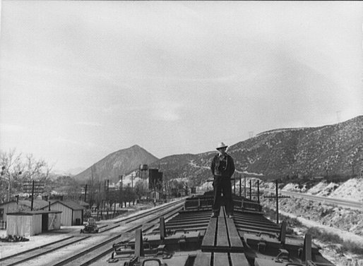 A Santa Fe Railroad train stopped at Cajon Siding, California. The brakeman is standing atop the train during a stop to cool the train's braking equipment after descending Cajon Pass.